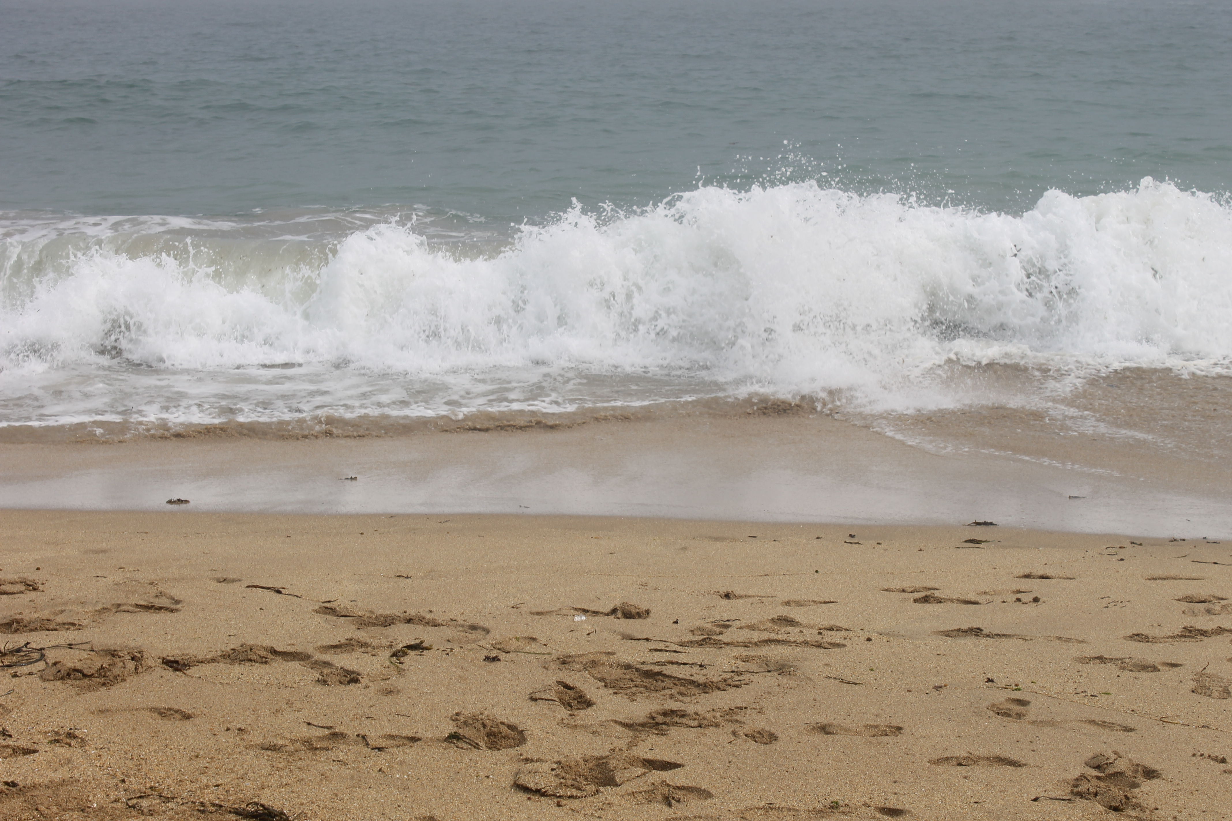 I took photo of ocean waves at Sand Beach in Acadia National Park in Hancock County, ME.